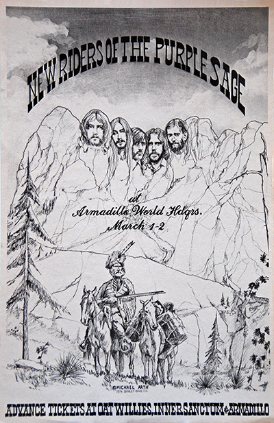 Poster from a pencil, ink, and watercolor drawing by artist Michael E. Arth for a March 1-2, 1974 concert by the New Riders of the Purple Sage country rock band at the Armadillo World Headquarters in Austin, Texas. The license only applies to this low-resolution version.